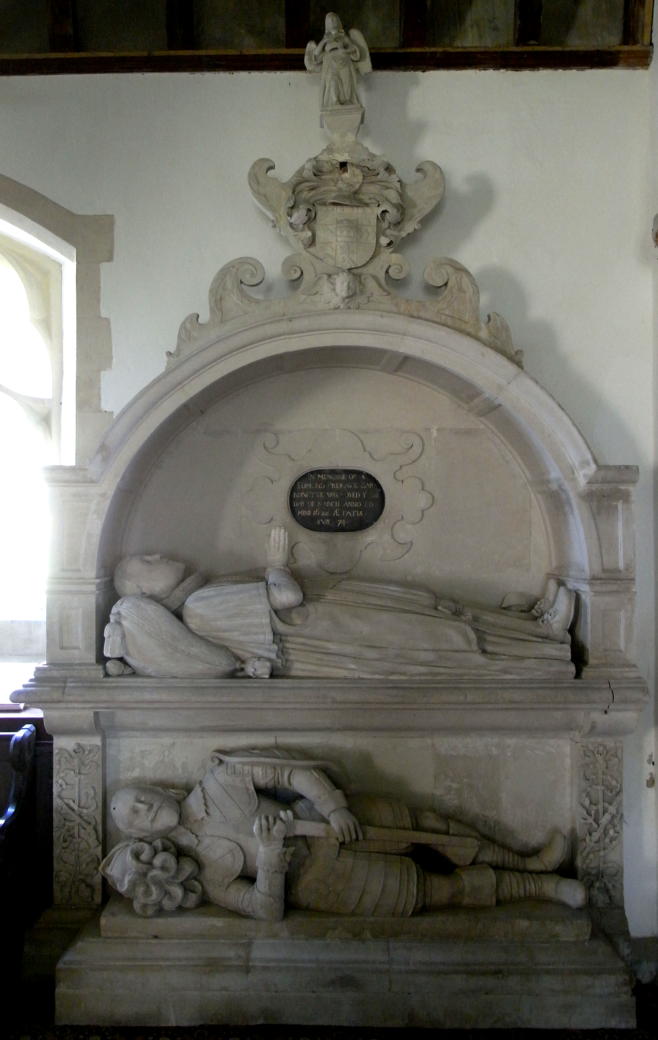 Monument to Sir Edmund Prideaux, 1st Baronet (died 1628), of Netherton in the parish of Farway, Devon, in St Michael and All Angels' parish church, Farway